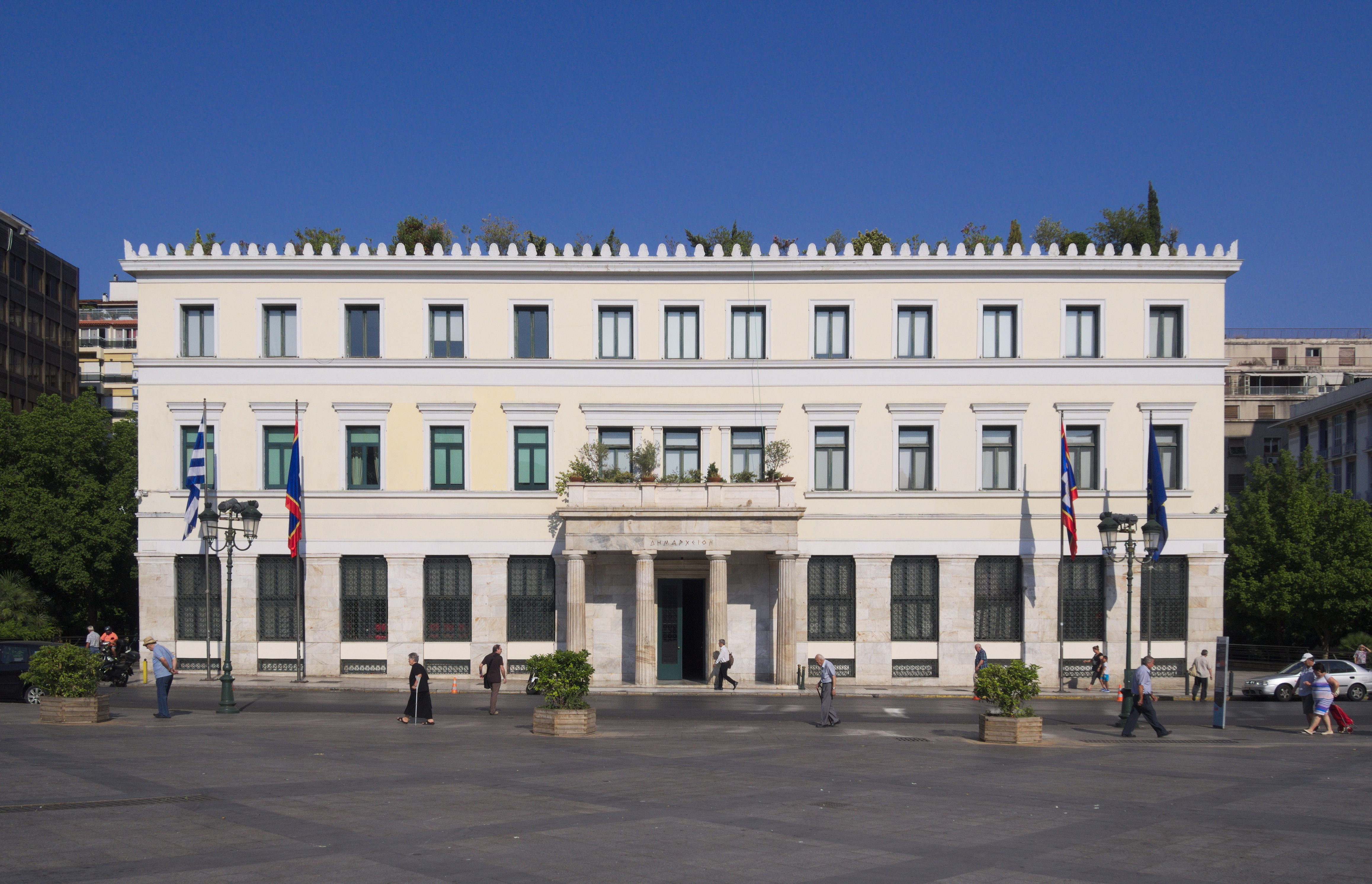 Athens city hall east facade, as seen from Plateia Kotzia. The building was designed by Panagiotis Kalkos (1810-1878) and was completed in 1874. The third storey was added later.